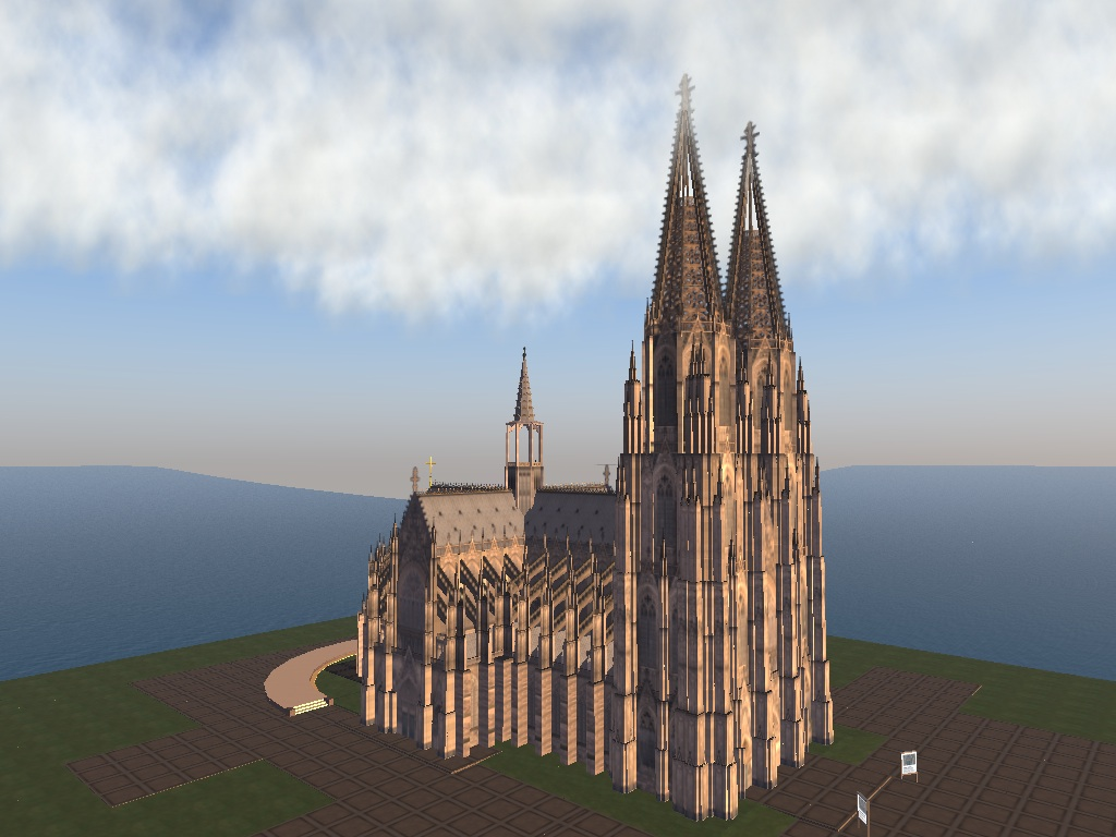 Cologne Cathedral